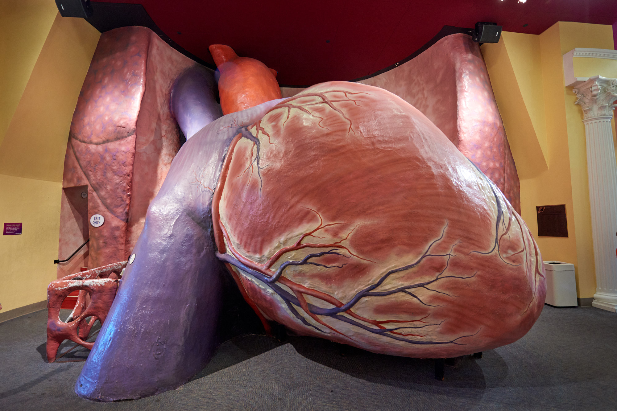 giant heart model at the Franklin Institute in Philadelphia